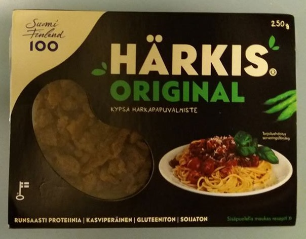 Härkis, a Finnish broad bean product, a vegan alternative to meat